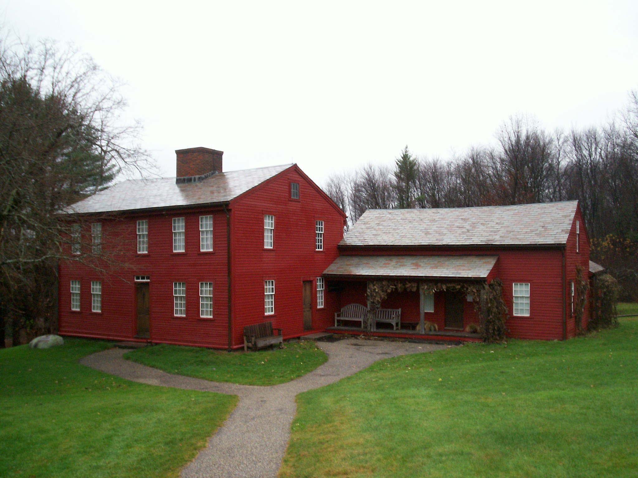 Former farmhouse of Fruitlands farm community in Harvard, Massachusetts, founded by Bronson Alcott. Now a museum to the experiment.